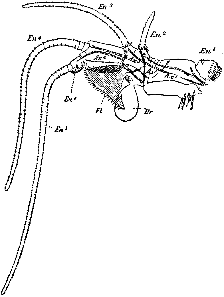 The first thoracic (fourth post-oral) appendage of Apus cancriformis (right side).